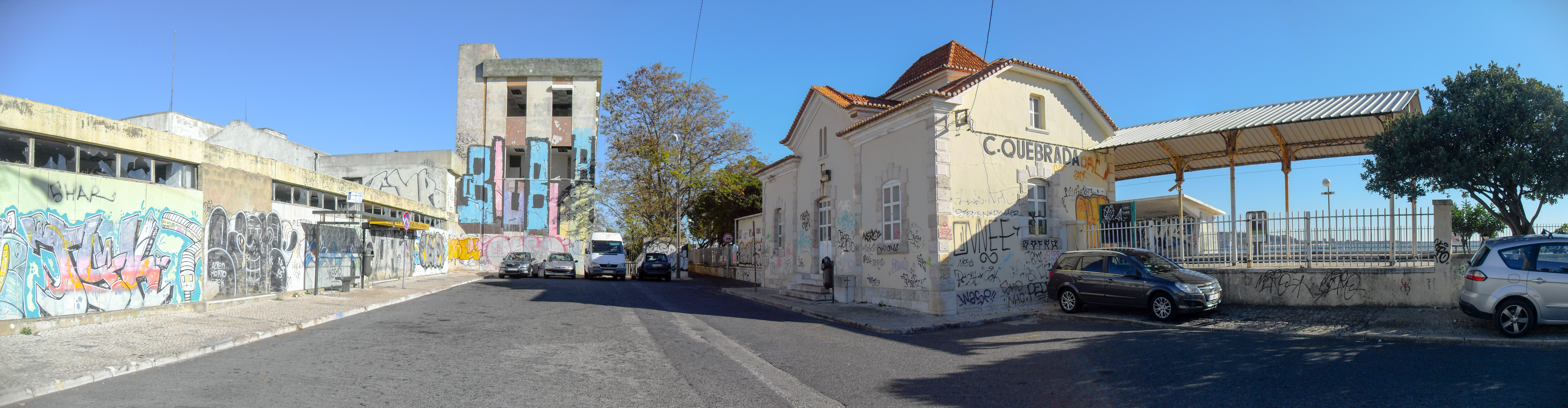 Cruz Quebrada train station on the Cascais Railway; Portugal